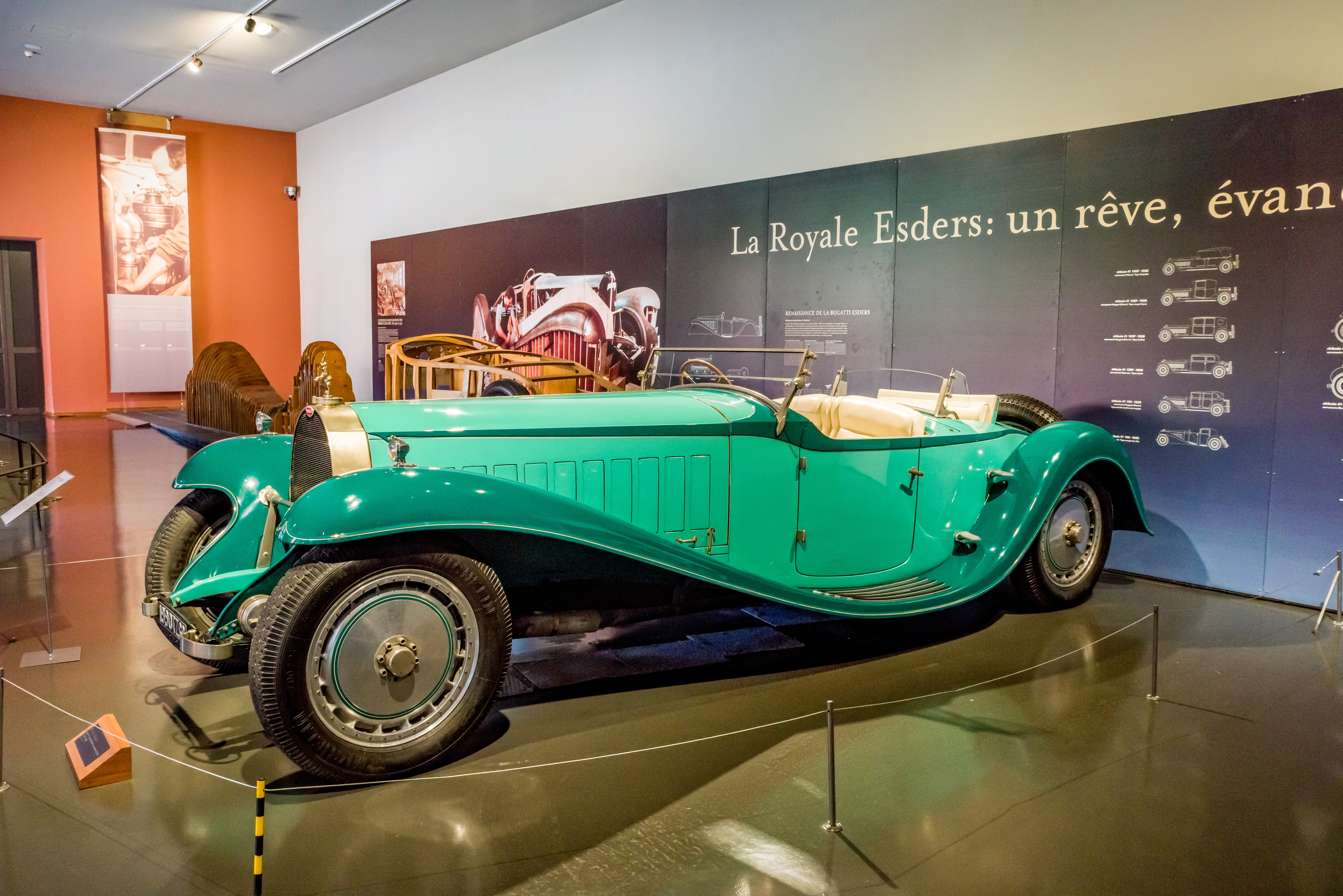 pictures from the Cité de l’Automobile – Musée National – Collection Schlump in Mulhouse, France ptictures from the 10. may 2018